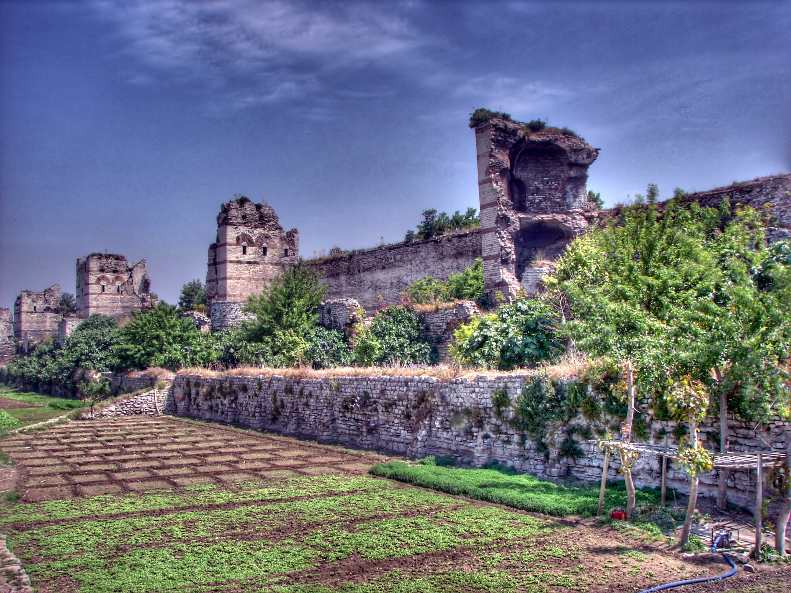 Walls of Constantinople, Istanbul